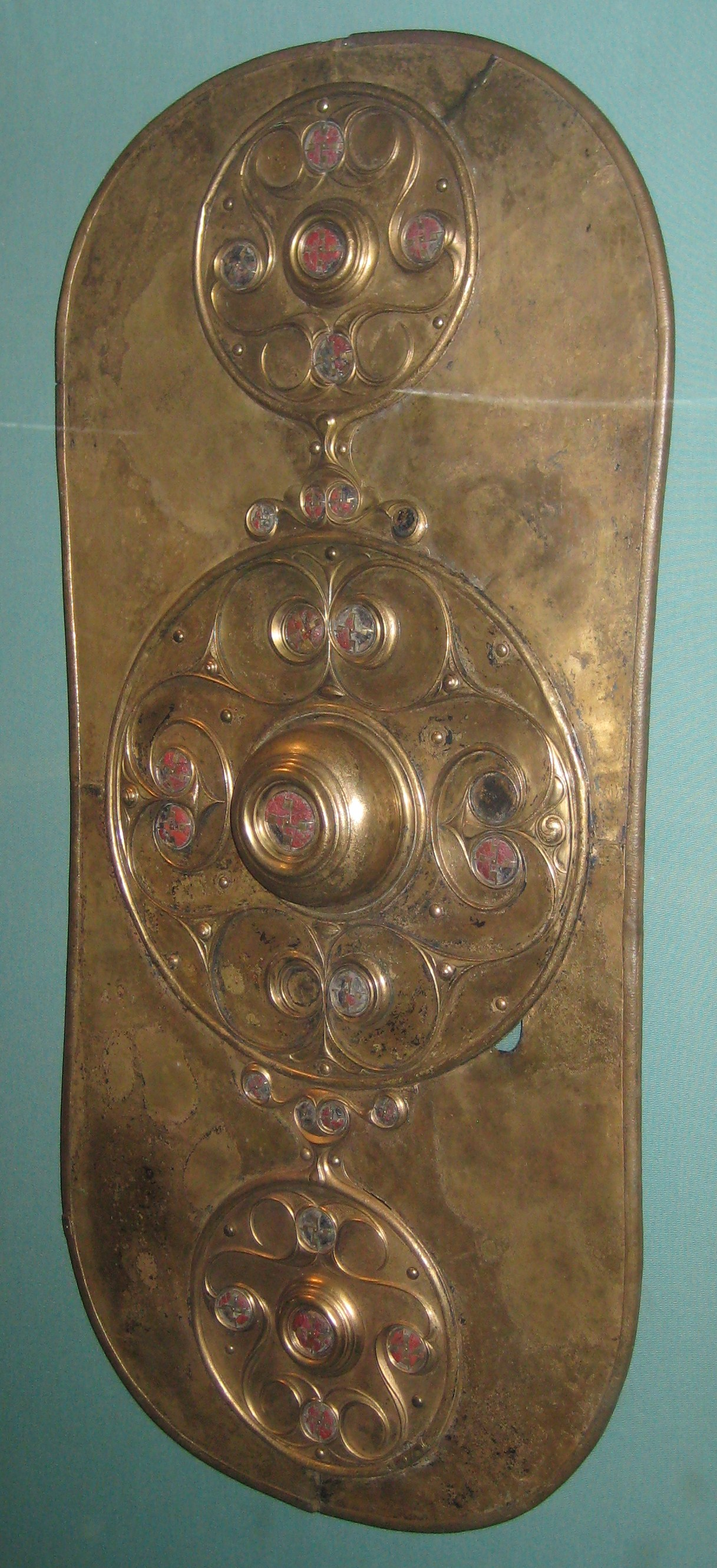 Iron Age bronze shield, known as the Battersea Shield